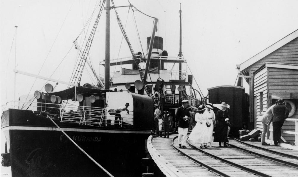 Kuranda (ship) at Port Douglas wharf, ca. 1917 The Kuranda (ship) is docked at the Port Douglas wharf and is viewed from the bow. The bridge, funnel, masts and decking is well featured in this image. A military officer accompanies a group of women along the railway tracks near the wharf buildings. The image is part of a Kodak postcard. The reverse of the postcard reads: Front Street, Mossman, North Queensland, 5th Sept. 1917. Dear Ivy, I never got a letter from you yesterday but a postcard came from Minnie to Anne. This is the Kuranda at the Port Douglas Wharf. Mabel Lematy is still in the hospital. It has been very dry up here in these last few weeks. The members of the Gayndah Band sent Gil a gold medal for helping them while the show was on. Be sure to write every week or else I'll start and write to Kate. Where is Tango now? From your loving sister, K. D. Jones.